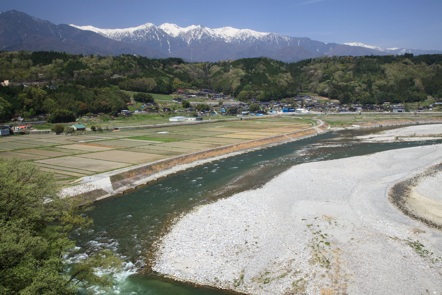 A view of Nakagawa Village in Nagano Prefecture, Japan. Kiso Mountains in the background. Looking northwest.